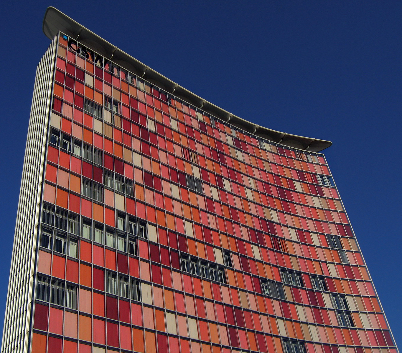 GSW Building in Berlin